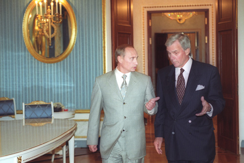 THE KREMLIN, MOSCOW. Vladimir Putin and Tom Brokaw before an interview to NBC television network.